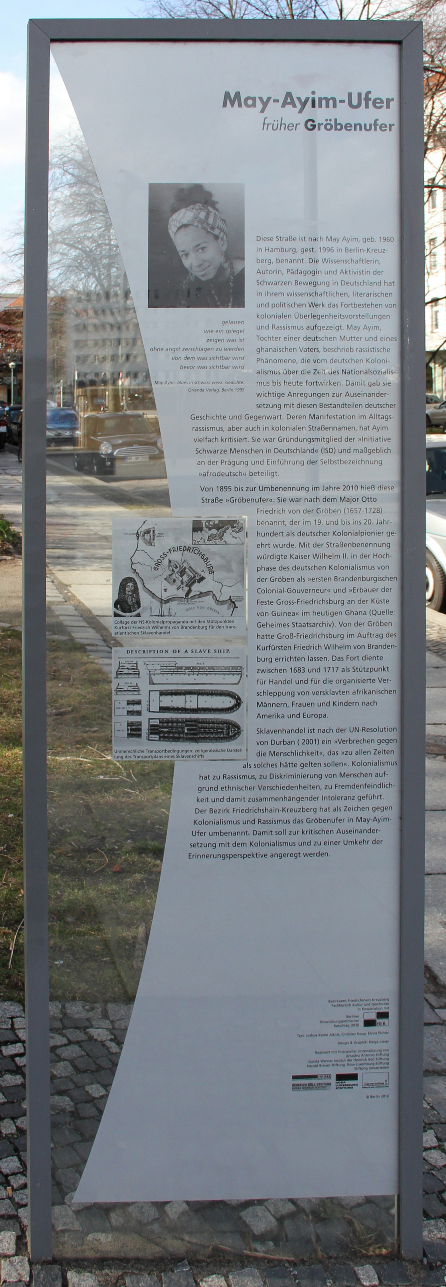 Memorial plaque, May Ayim, May-Ayim-Ufer, Berlin-Kreuzberg, Germany